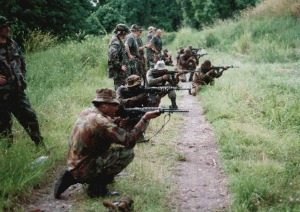 US Army photograph of a JCET program